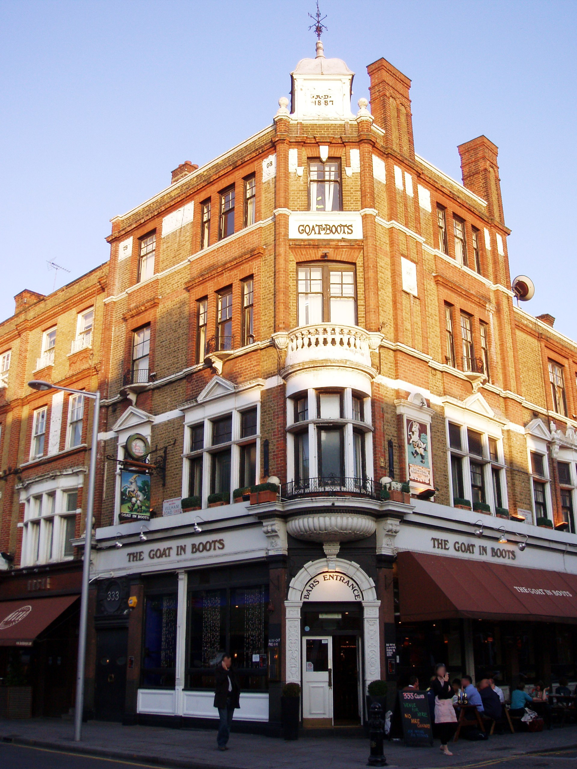 A grand pub on the Fulham Rd. Address: 333 Fulham Road. Former Name(s): The Goat. Owner: (website); Watney Combe Reid (former). Links: Fancyapint Beer in the Evening Qype Dead Pubs (history)